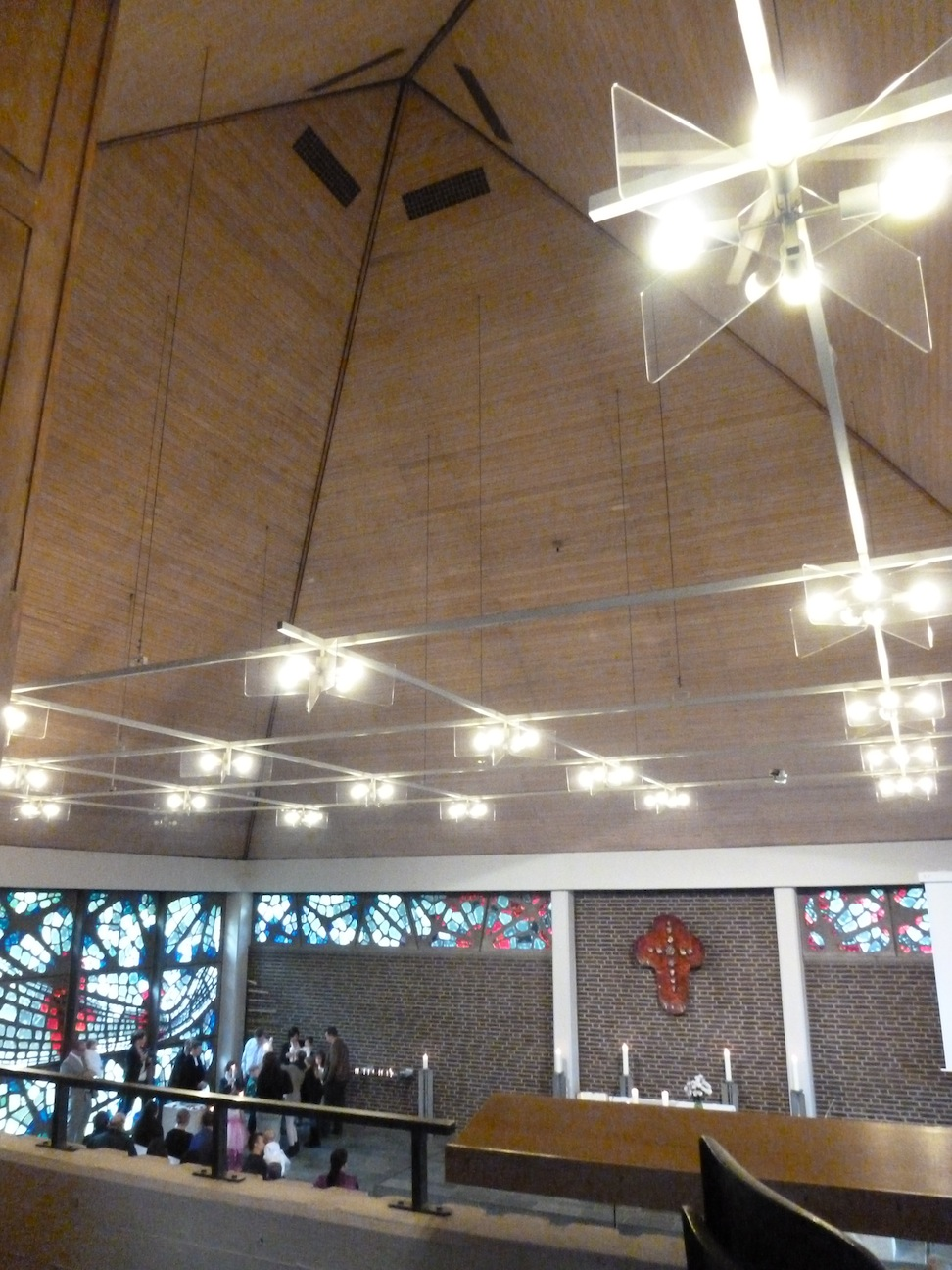 Christus Kirche Hiltrup, Innenraum